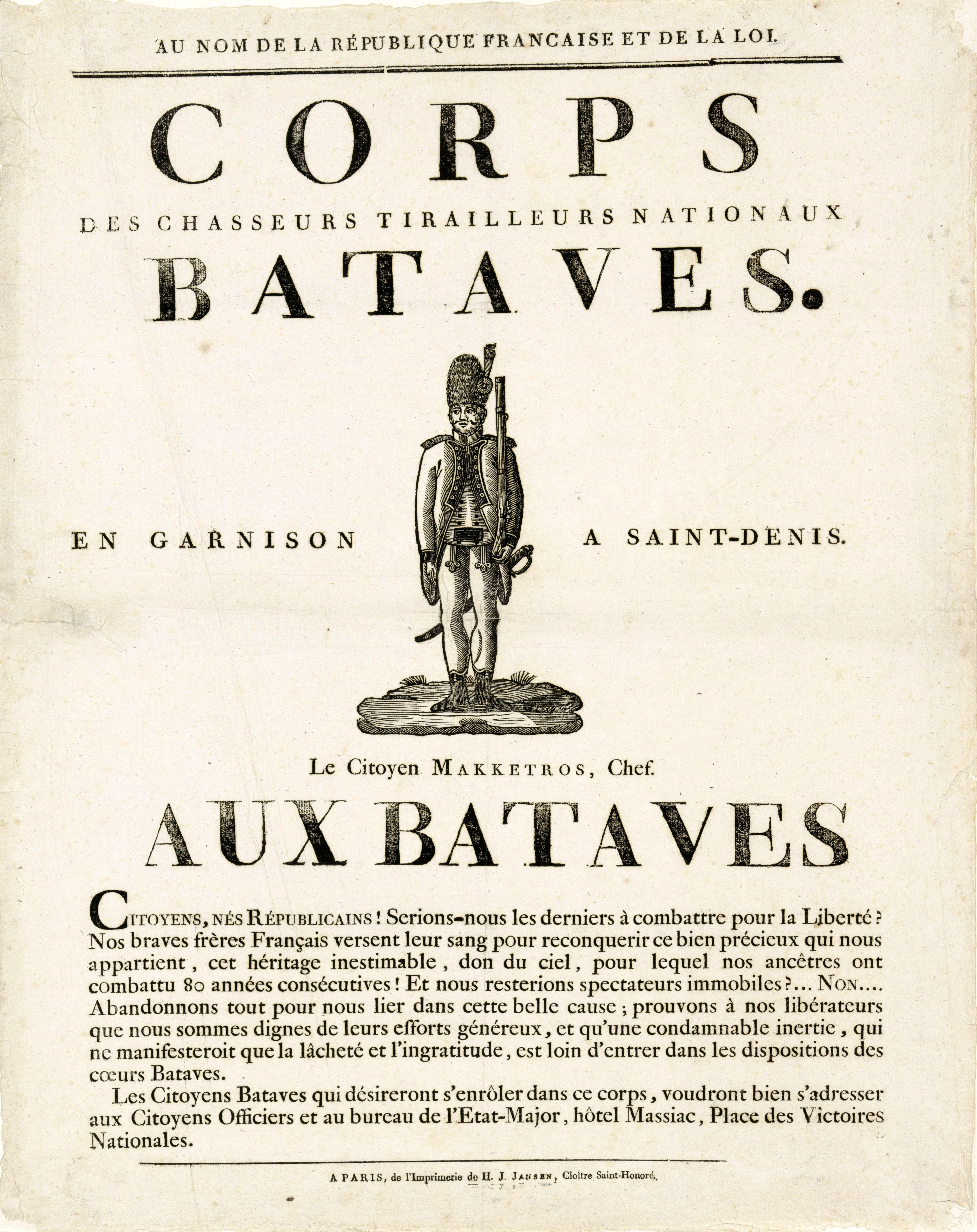 Appeal to the Dutch refugees in France to join the Corps Bataves (also: Batavian Legion, Bataafs Legioen, Légion Batave). Year: ± 1793. The Corps Bataves was a volunteer army, which was composed by Dutch Patriotic Republicans to fight against the forces of the Orangists in the Republic of the United Netherlands.